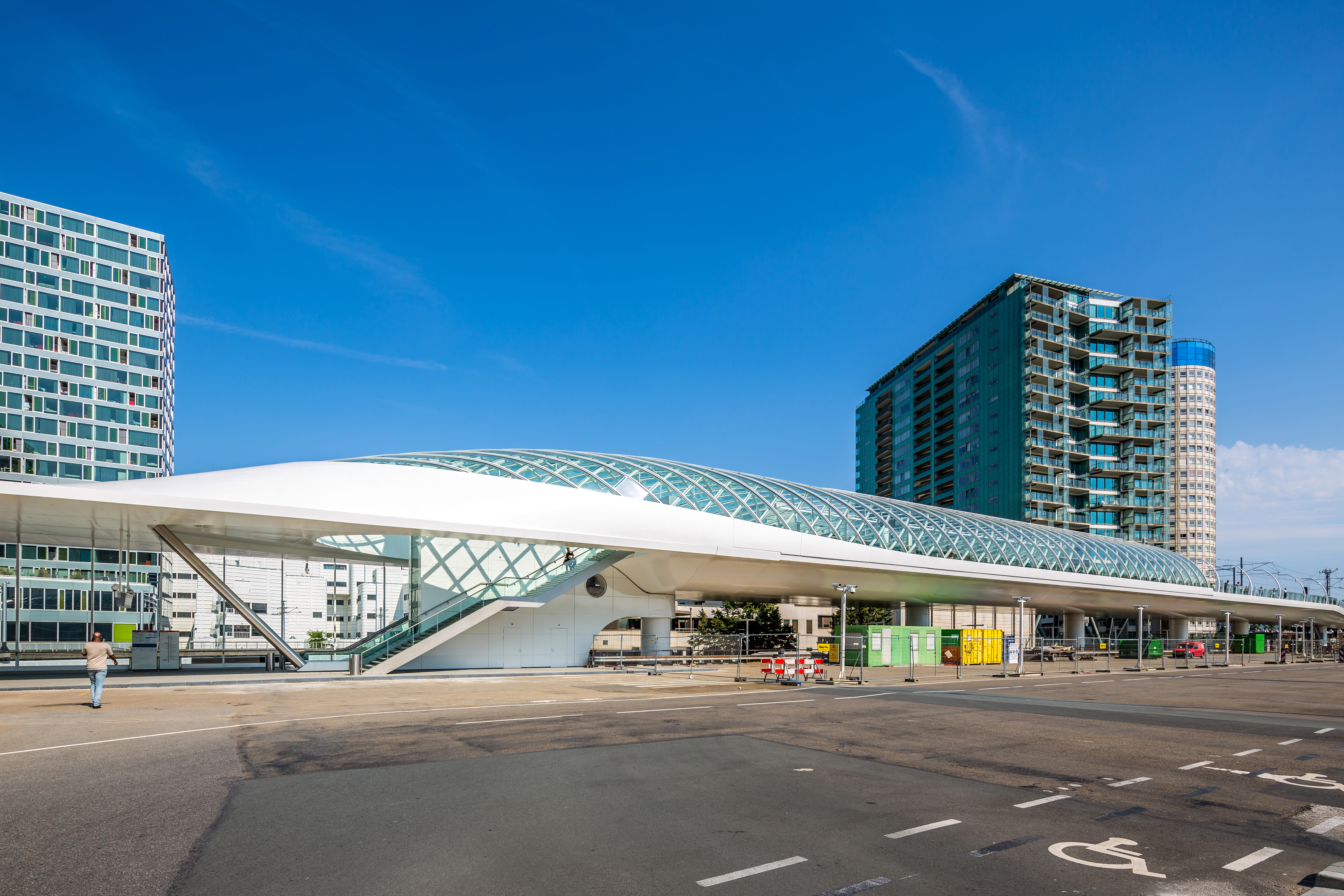 Lightrailstation, The Hague (08/2016) - Human picture: (1 body / 1 lens / 1 human = 1 picture ) 0% AI... ;- ) ... Following vandalization (Rotterdam) of my work, final stop of this series on European cities. My work not being respected, I definitively stop my publications in Wikimedia Commons (including definition and quality updates). Final publication in Wikimedia Commons